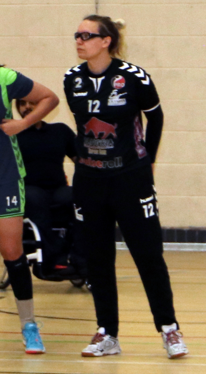 Olympia HC goalkeeper Zooey Perry before a game in the Liverpool International Handball Tournament 2019.